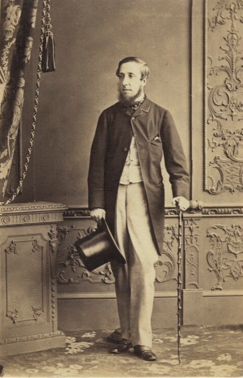 Portrait of Charles Scott-Murray (1818–1882), British politician.